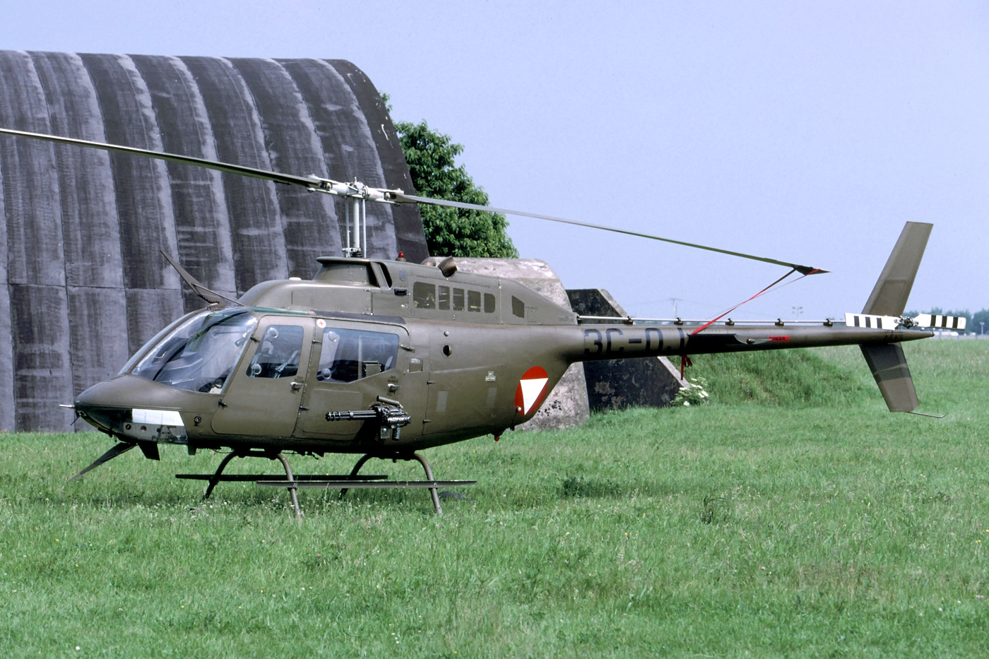 Bierset, 1 June 2003. The International Helidays, an airshow with only helicopters. Without even a demo of an F-16. This 'low noise', but fantastic event was held eight times between 1999 and 2007. A Kiowa armed to the teeth with a mini gun.